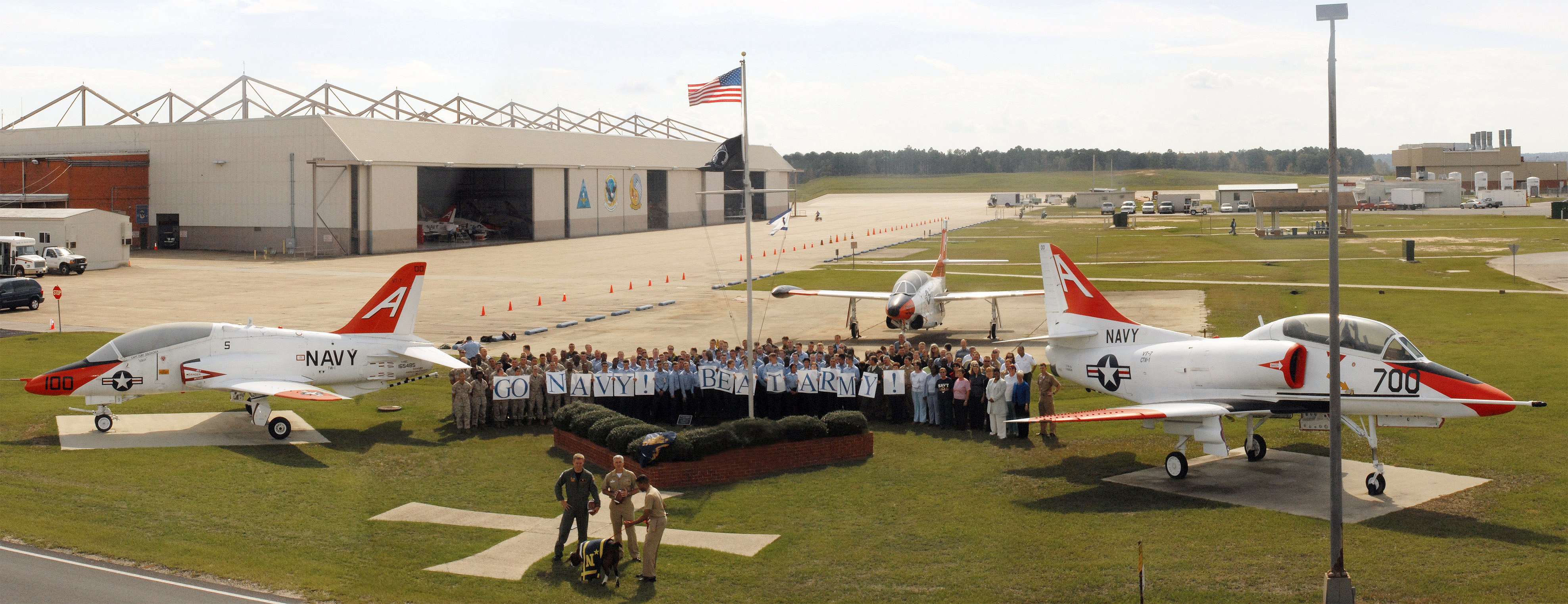 Meridian, Miss. (Nov. 1, 2006) - Sailors, Marines, and civilian Department of Defense employees stand in formation while filming a television spot in front of the jet hanger for Training Air Wing One (TW-1) at Naval Air Station Meridian for broadcast during the upcoming Army-Navy football game. NAS Meridian will hold a variety of events to show their support of the Naval Academy Midshipmen football team when it faces the Army Cadets, Dec. 2, to include various Captains’ Cup sporting events, tailgate parties, and a big screen display of the game at the Rudders Recreation Building. This is a digital composite of four images to produce a panoramic view of the formation. U.S. Navy illustration by Mass Communication Specialist 3rd Class Aramis X. Ramirez (RELEASED)